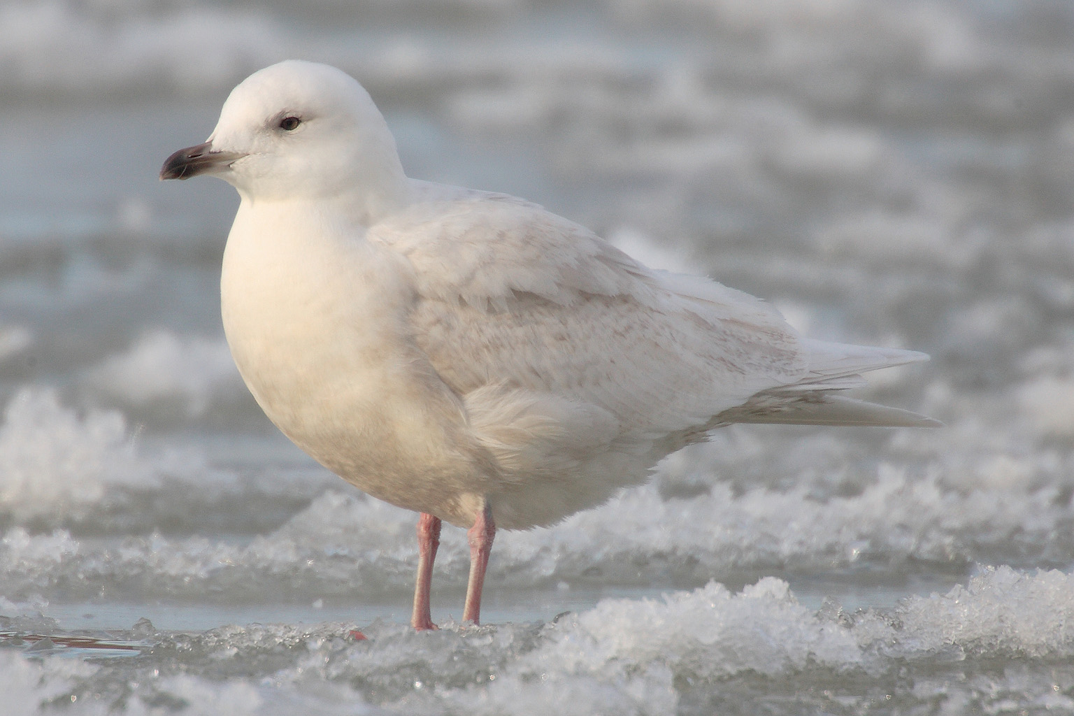 Iceland Gull -- Bluffer's Park, Toronto, Canada -- 2006 February. Probably a first winter individual.